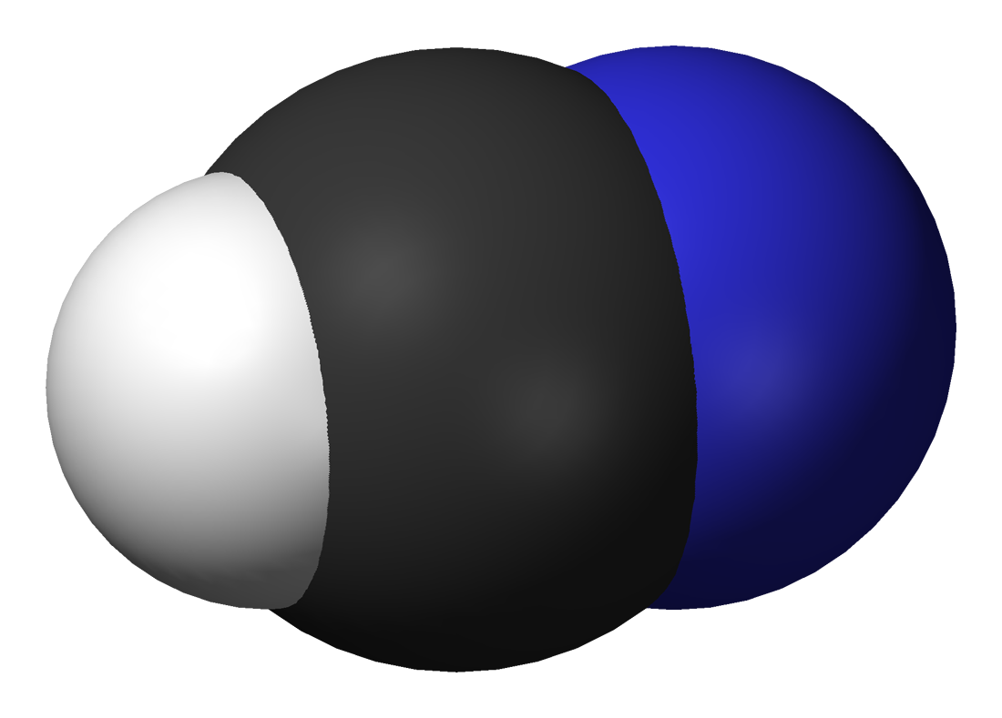 Space-filling model of hydrogen cyanide depicting the hydrogen (white), carbon (black) and nitrogen atom (blue)